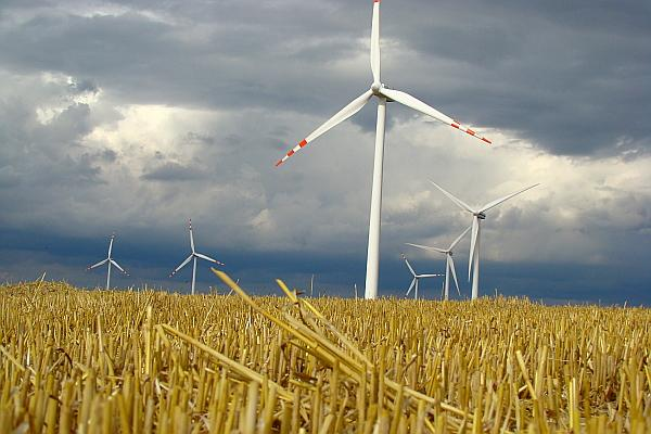 Wind park Zagórze in Poland